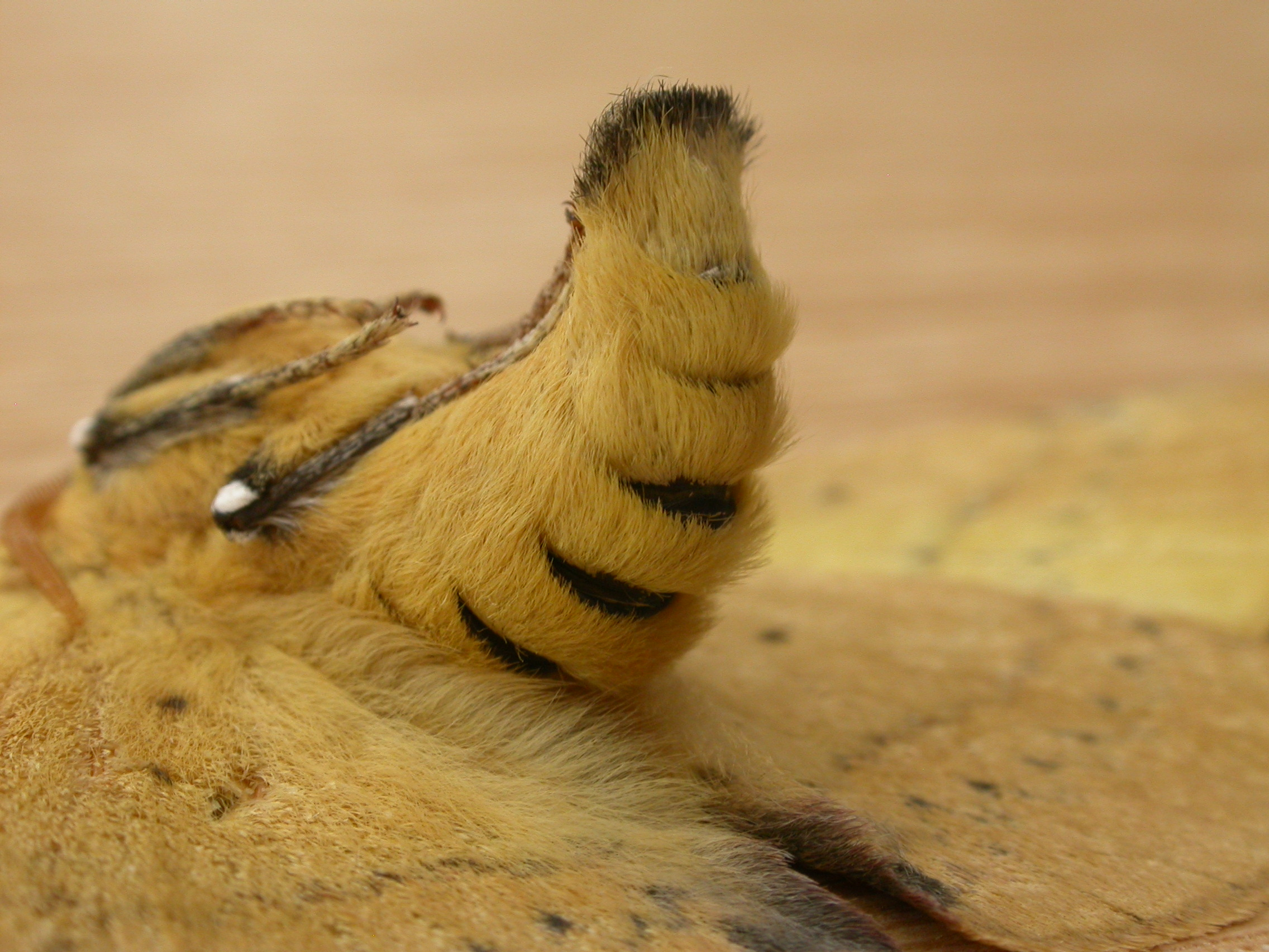 Anthela varia (Walker, 1855), male, to MV light, Aranda, ACT, 28/29 December 2008